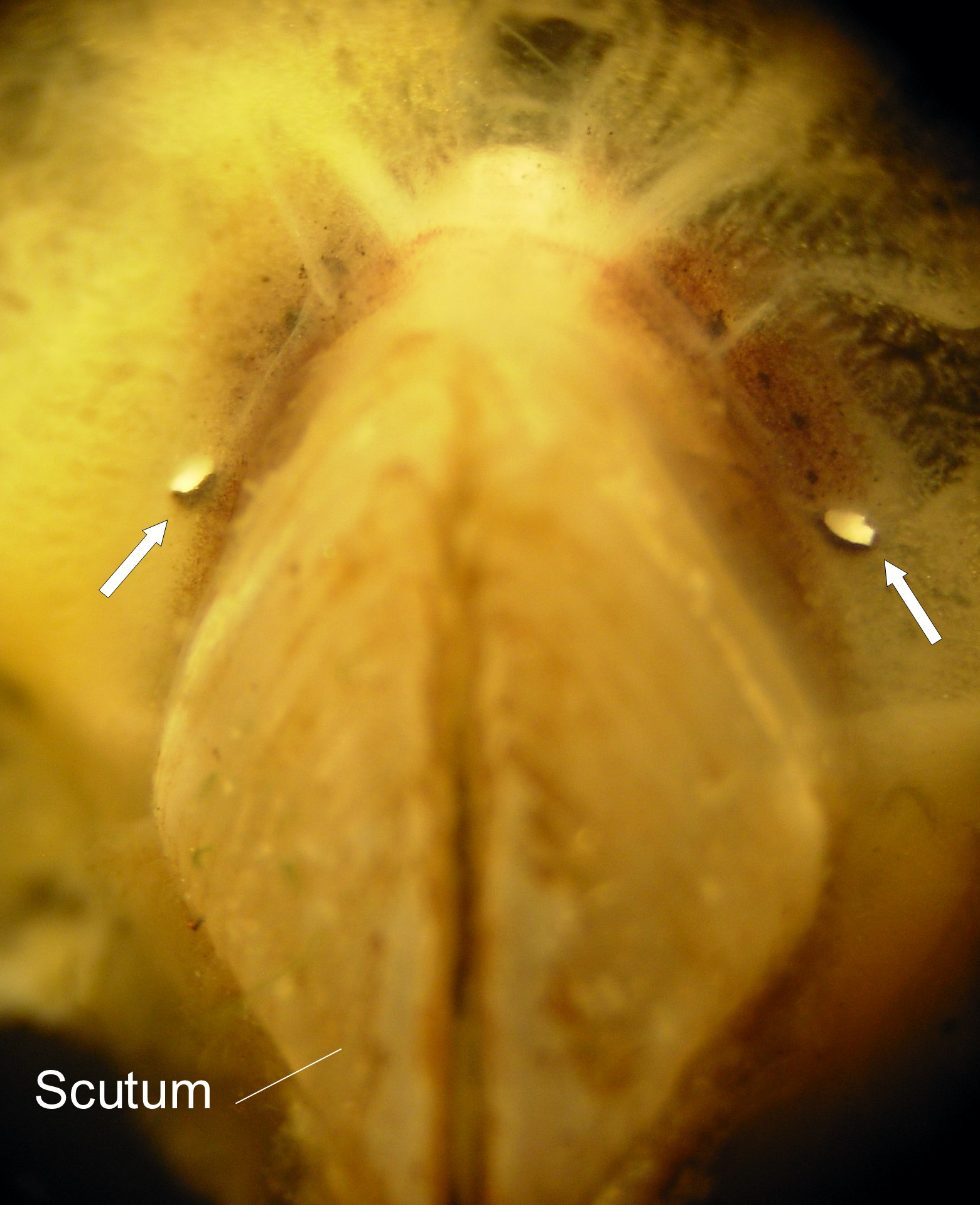 Lateral ocellus (arrows) in Balanus eburneus